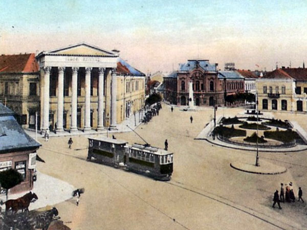 Tram in Subotica, Vojvodina, Serbia Српски (ћирилица): Изглед трамваја у Суботици, центар, Архив Суботица